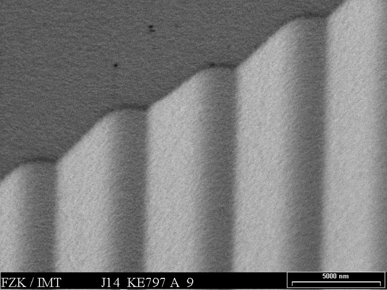 Microstructure.